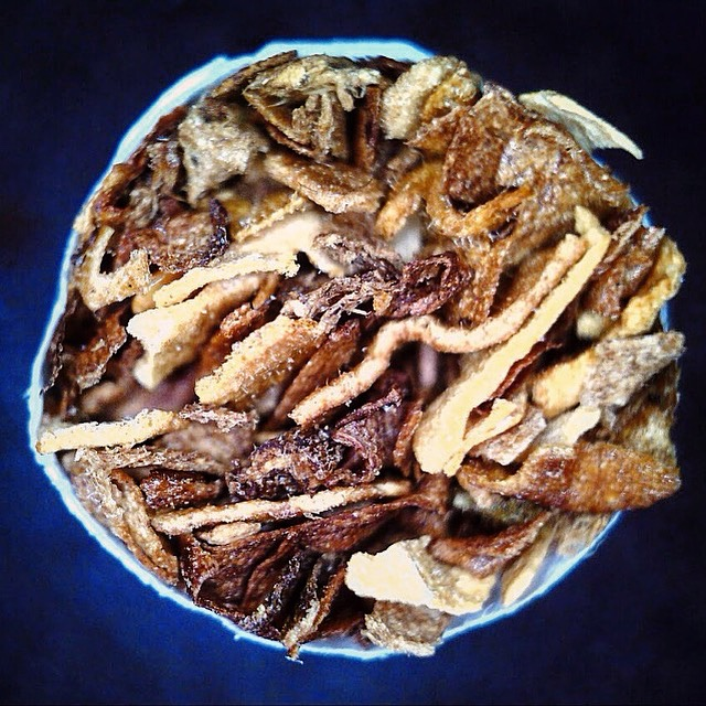 Cigarette under the microscope